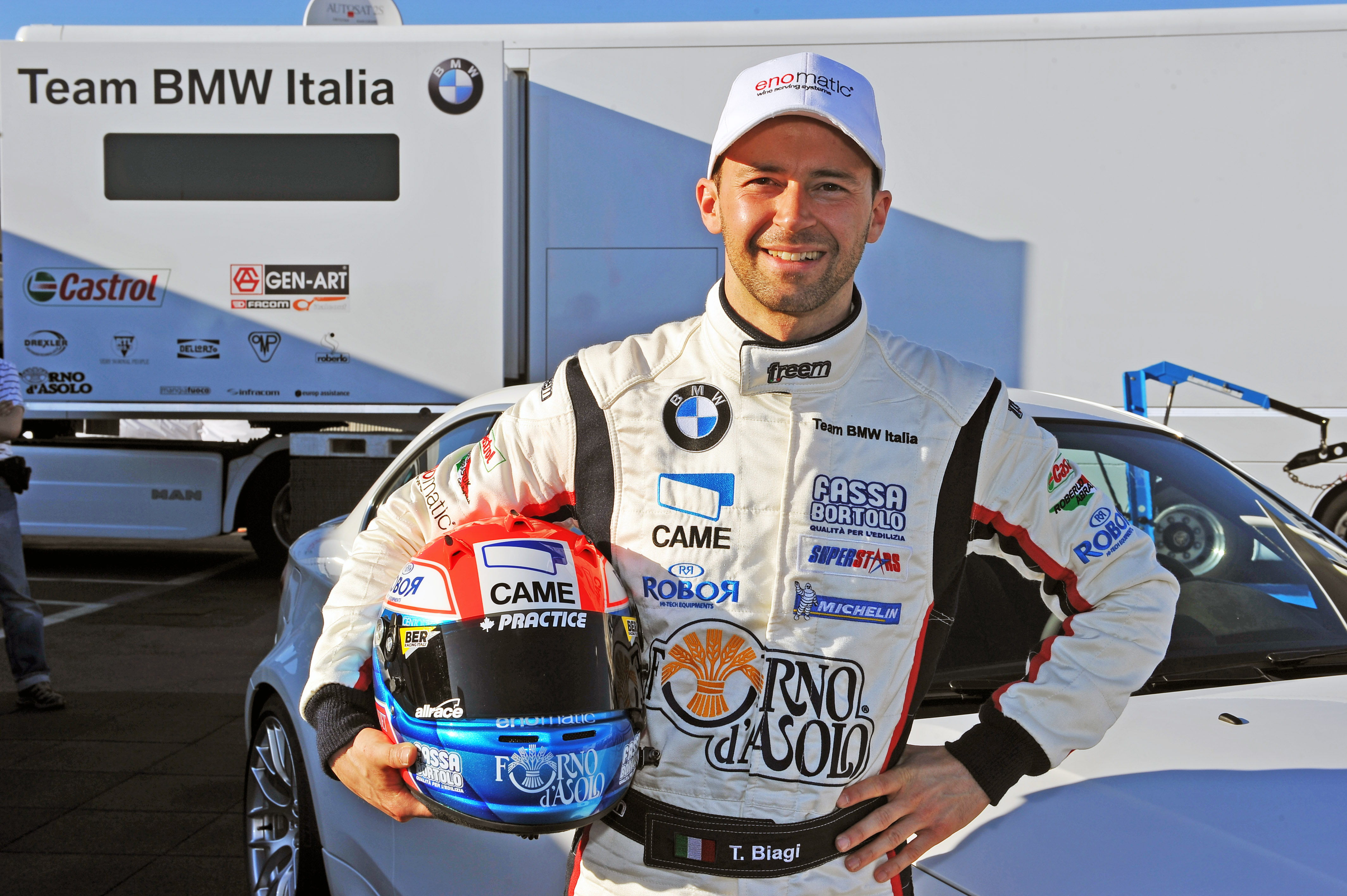 Thomas Biagi Yeam BMW Italia 2011